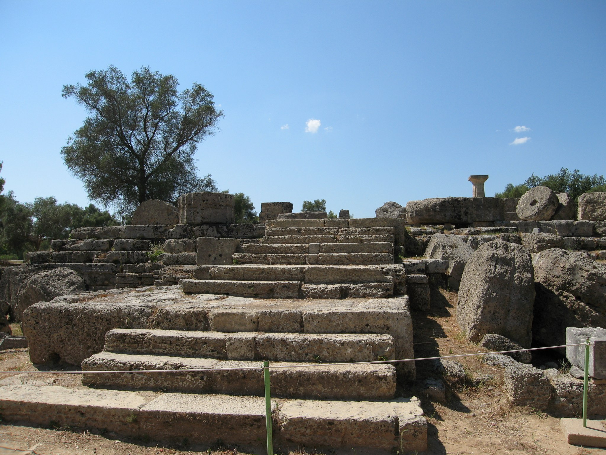 Temple of Zeus, Olympia, Greece